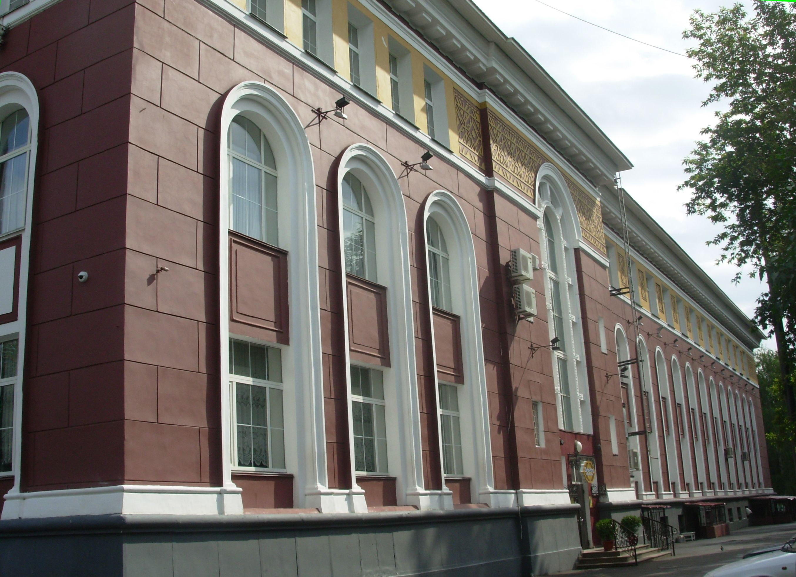 street